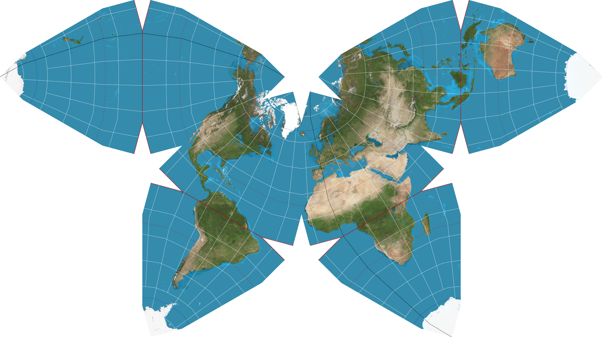 The world on a Waterman projection, with Antarctica broken up and attached to the main lobes. 15° graticule. Imagery courtesy NASA’s Earth Observatory, with modifications by Mapthematics LLC.